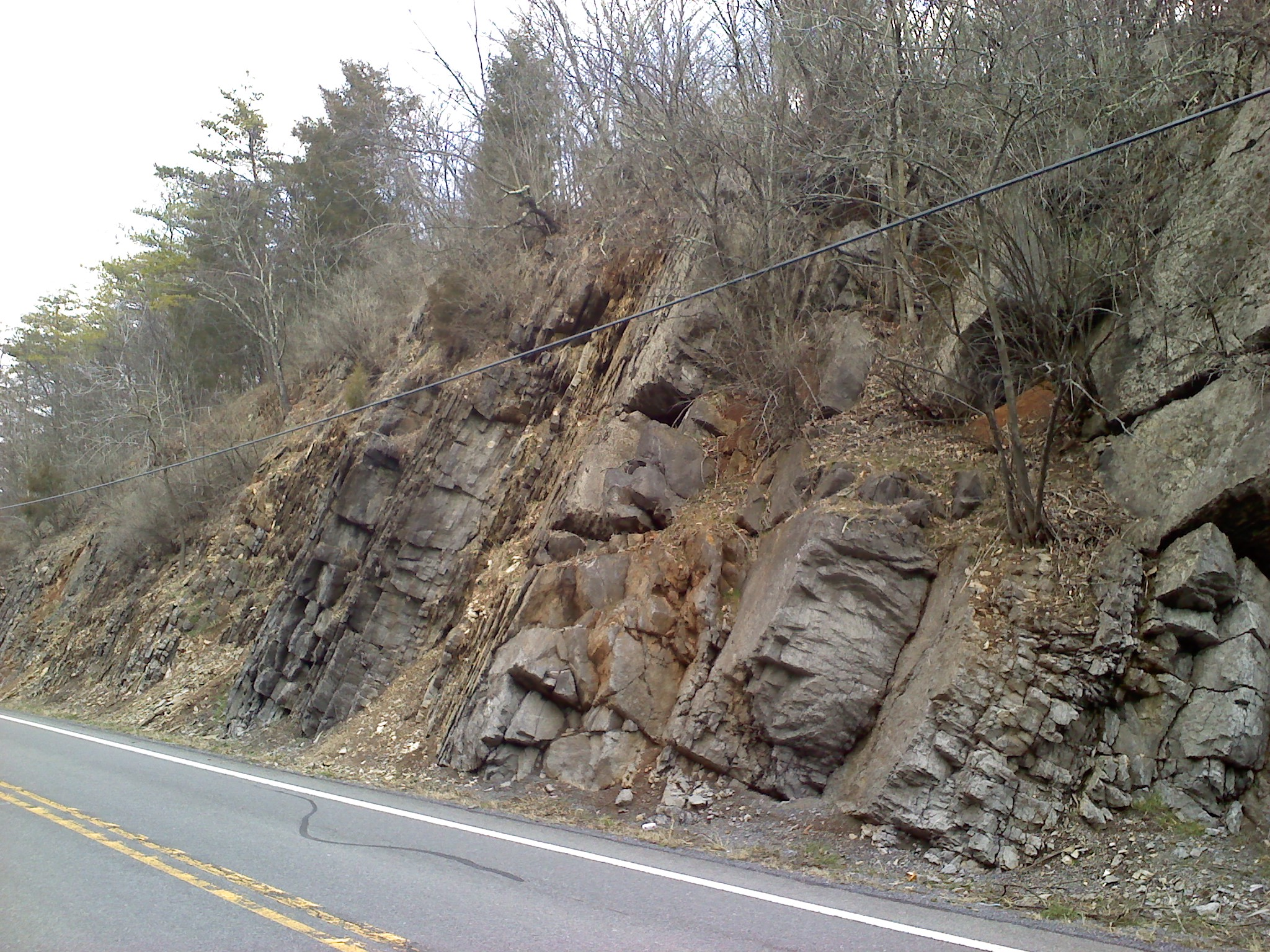 Outcrop of the Keyser Formation on U.S. Route 522 in Fulton County, Pennsylvania north of Warfordsburg, facing north. Stratigraphic up is to the left. April 2, 2011. Template:Coords